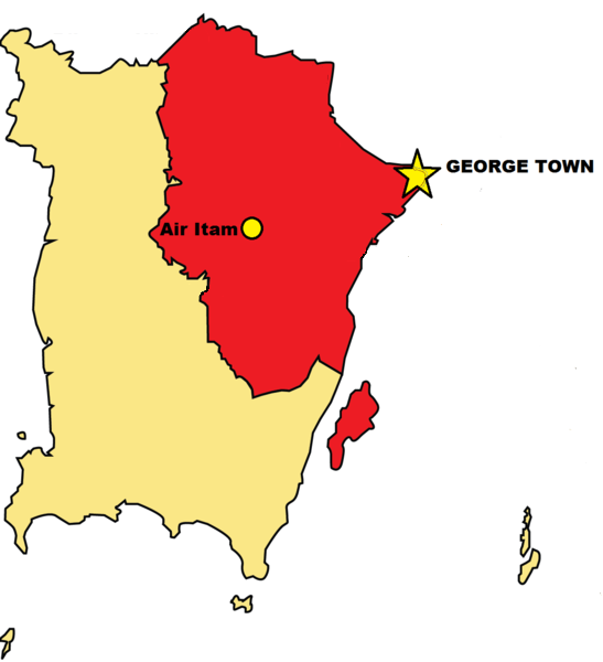 Location of Air Itam, George Town, Penang